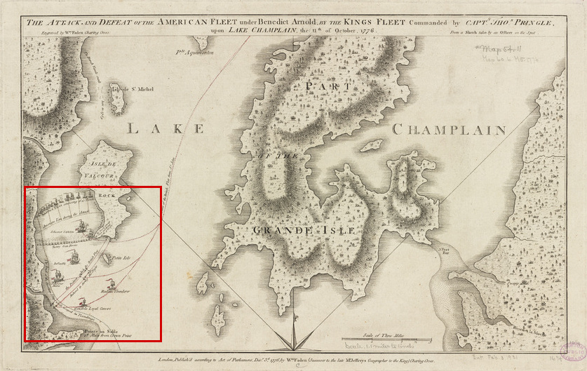 This is a 1776 map showing part of Lake Champlain and the action of the Battle of Valcour Island. The area showing the action has been highlighted with a red outline. The original map's border has also been cropped. The map's caption reads: The attack and defeat of the American fleet under Benedict Arnold, by the King's fleet commanded by Capt. Thos. Pringle, upon Lake Champlain, the 11th of October, 1776